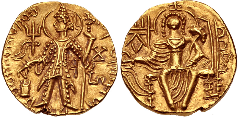 Mahi Kushan 4th century CE